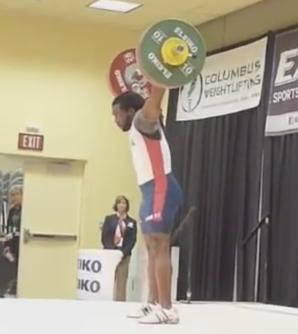 Lifts from the 85-kilo men's session at the 2012 nationals in columbus, ohio